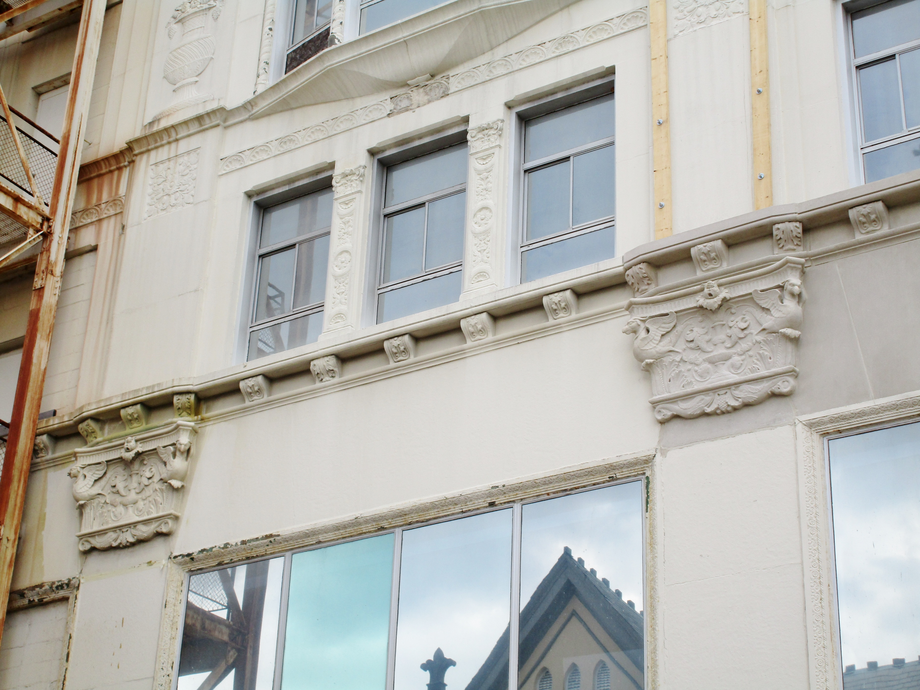 On the right is a mock-up precast concrete replica capital on the Montgomery Building. Compare to an original capital on the left.